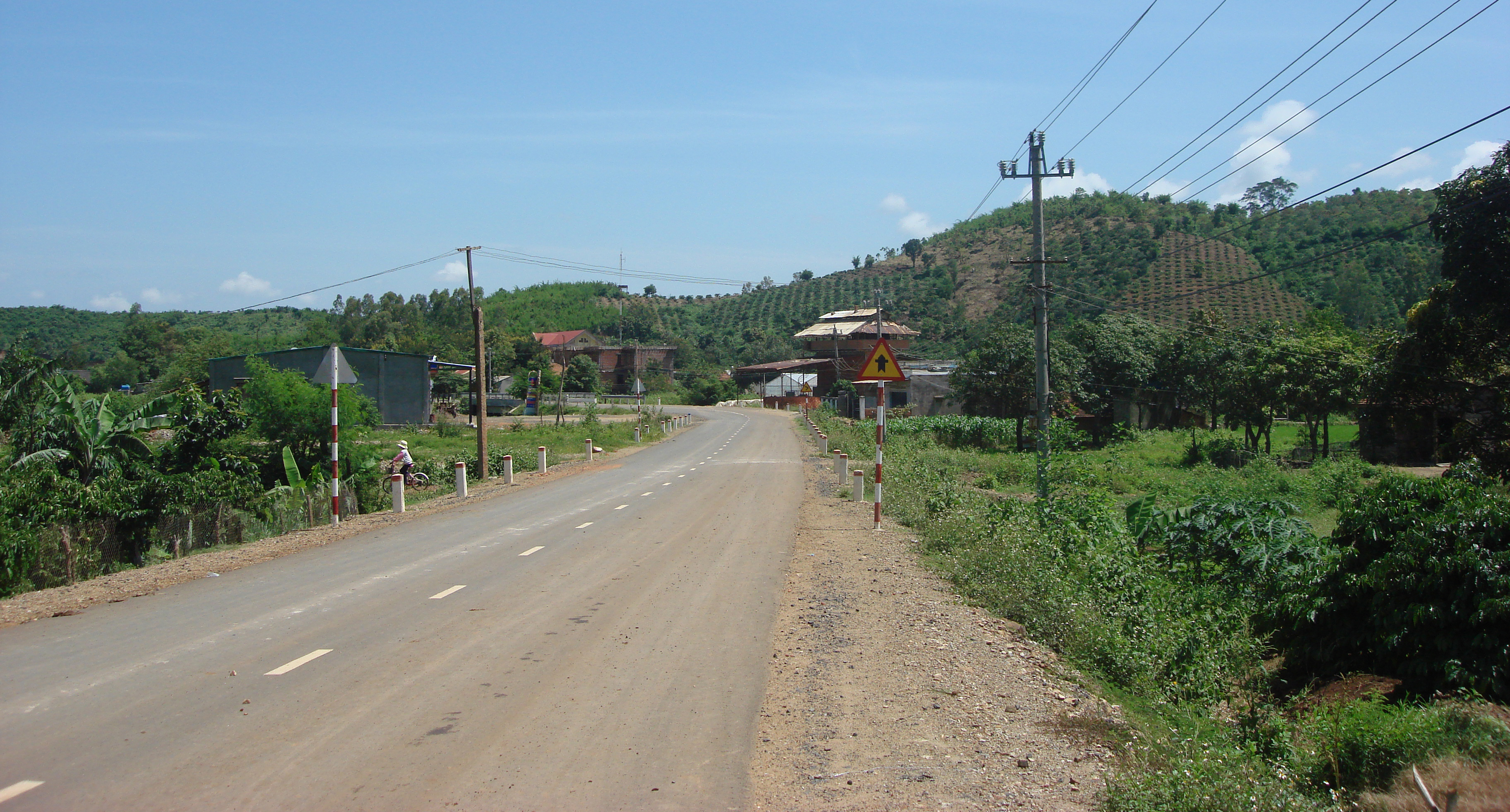 The region of Binh Hoa committee